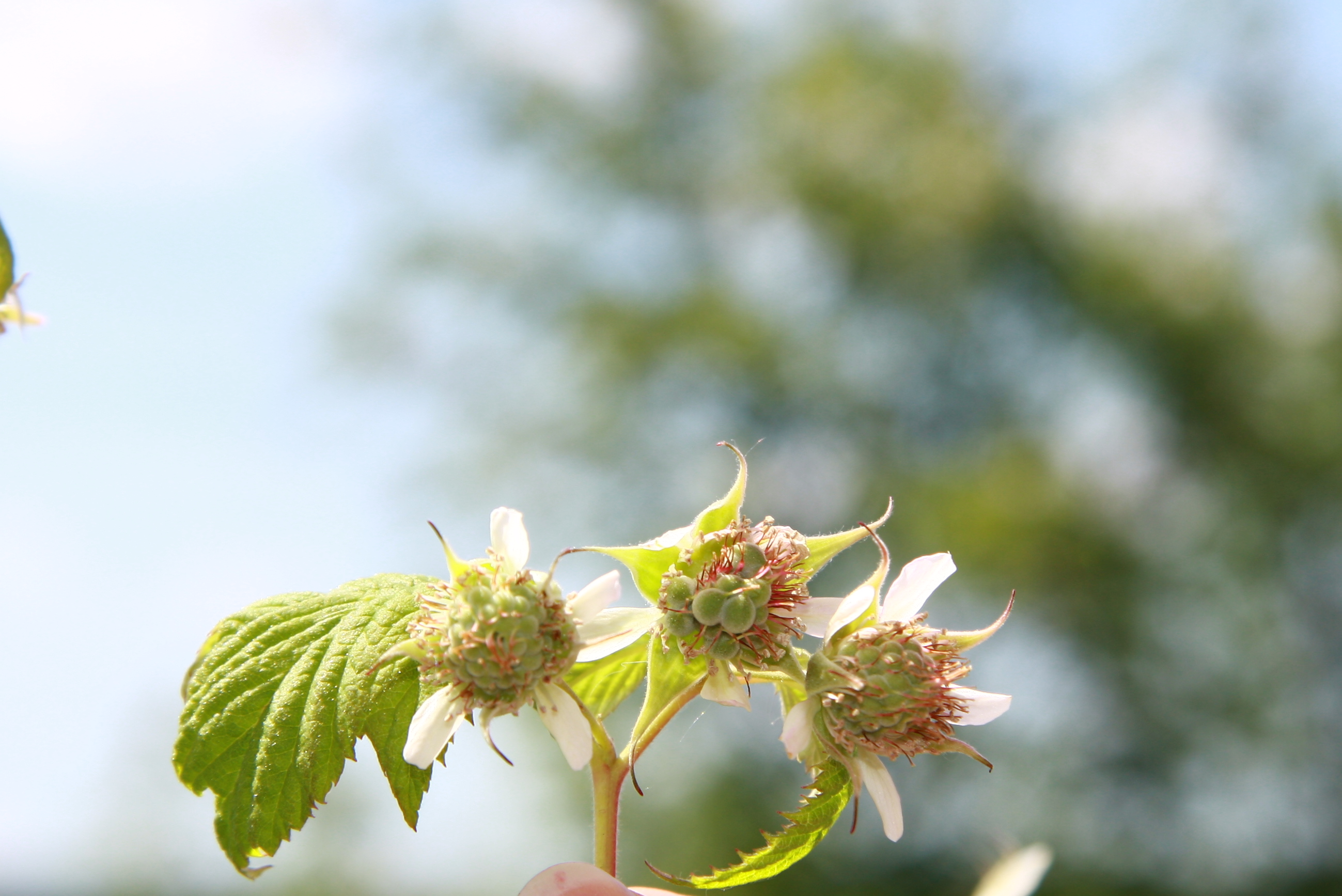 The blossom of the raspberry